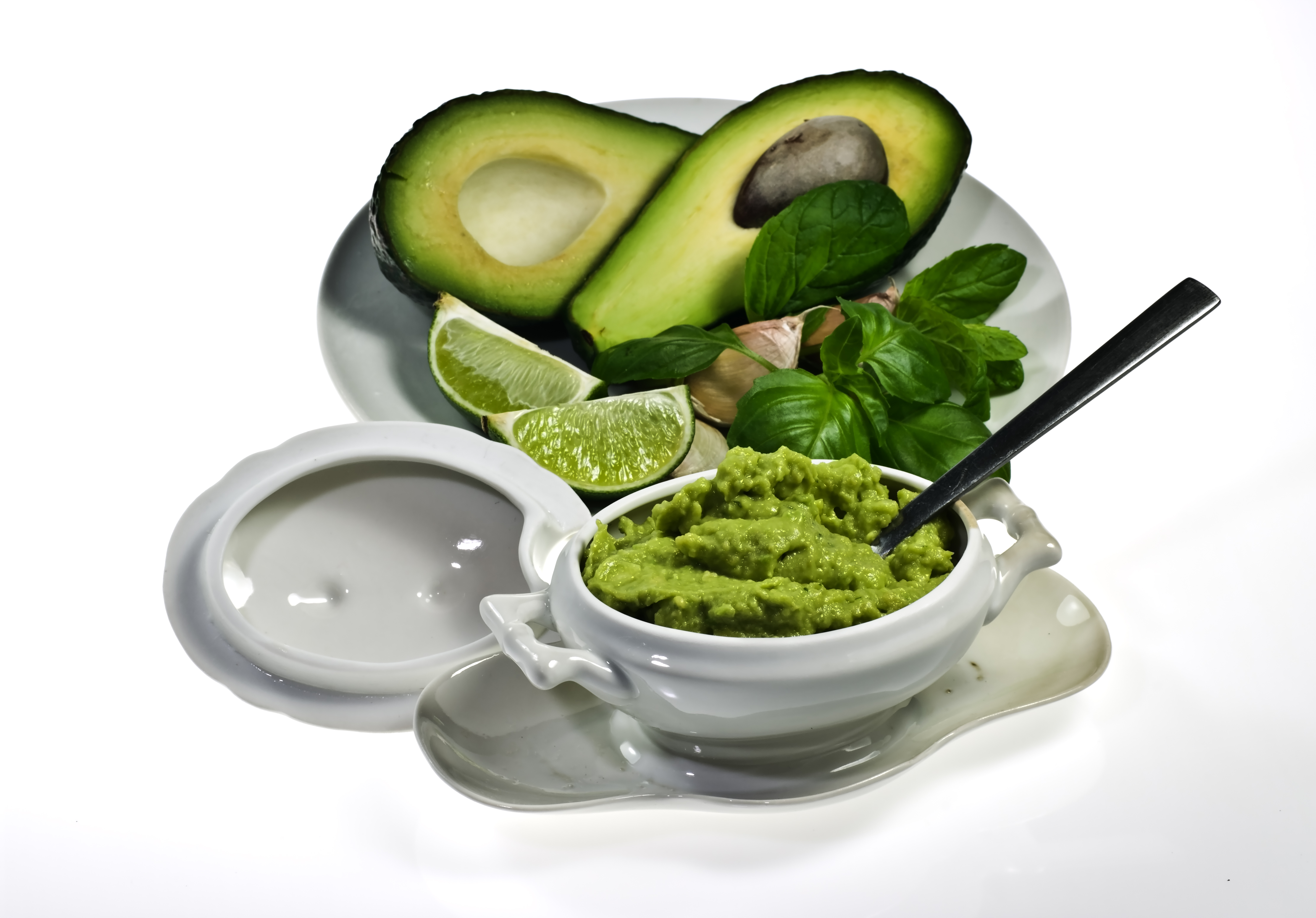 Guacamole - avocado-based dip originated in Mexico; with basil instead of cilantro